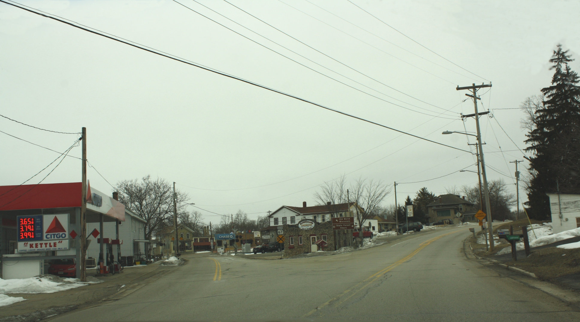 Downtown Eagle Wisconsin on Wisconsin Highway 67 / Wisconsin Highway 59.